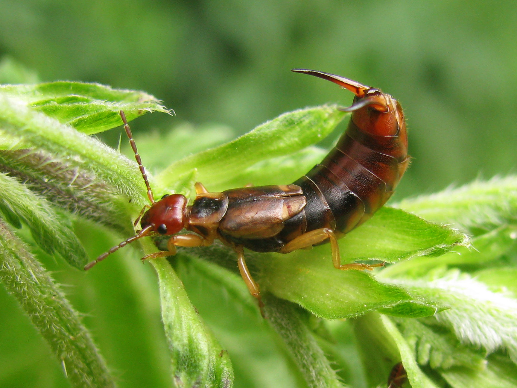 Female Earwig of species Forficula auricularia in defensive pose Location: Hengelo (Overijssel), Netherlands